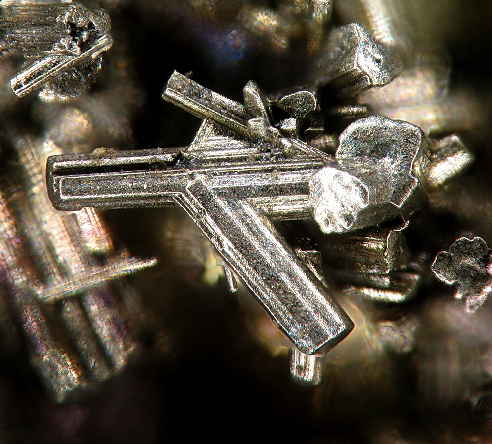 Argentopyrite (Picture width 2 mm) Locality: Schneeberg District, Erzgebirge, Saxony, Germany